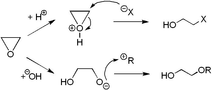 Ethylene oxide reactions